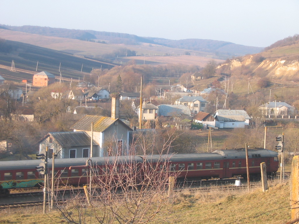 Suburbian diesel train DR1A at Pidvysoke train station, Berezhanskyi Raion, western Ukraine.